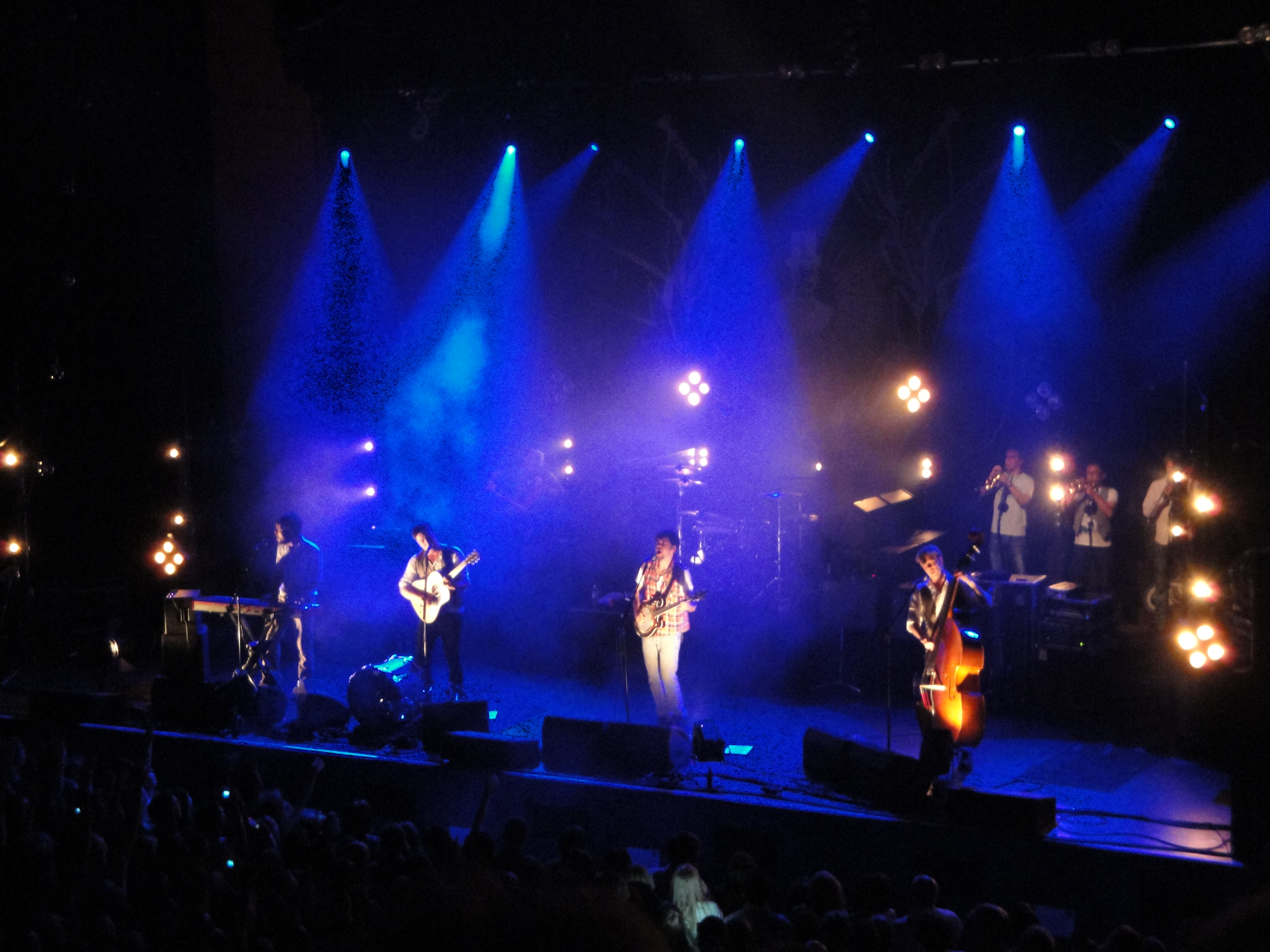 Mumford & Sons, seen during a liver performance at Brighton Dome, Brighton, East Sussex.